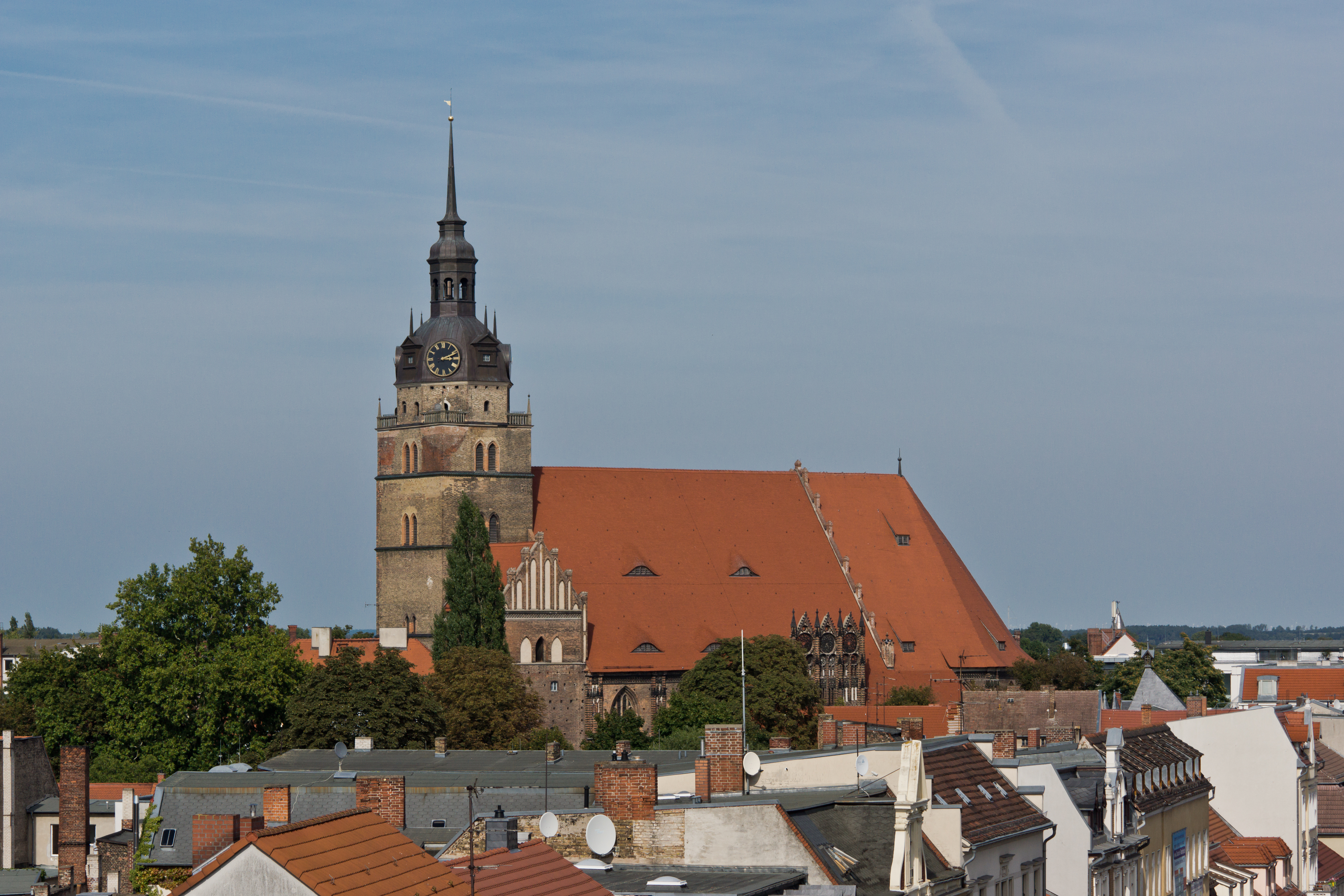 Katharinenkirche in Brandenburg an der Havel (Germany)